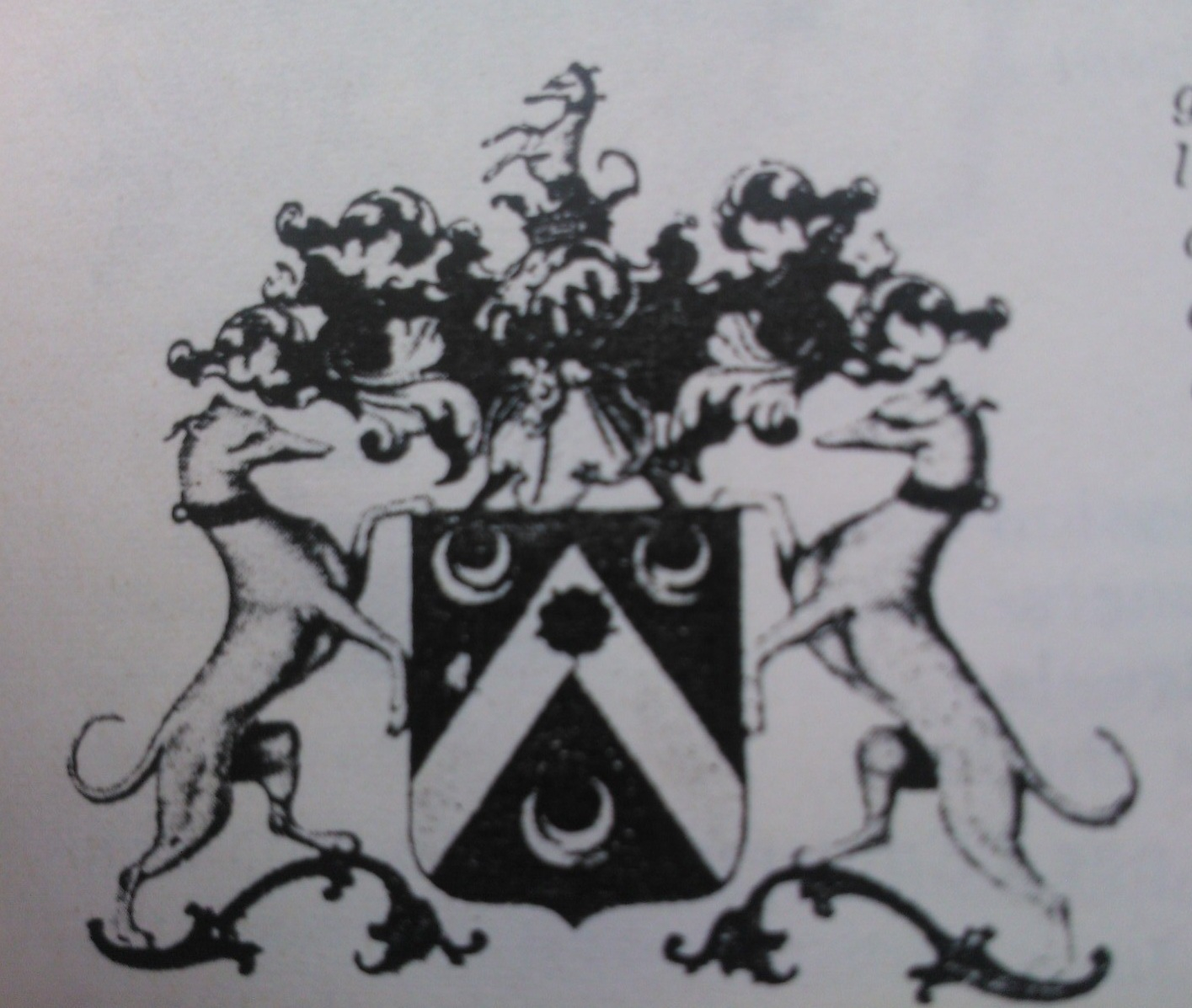 Coat of arms of the Belgian Burlet family.